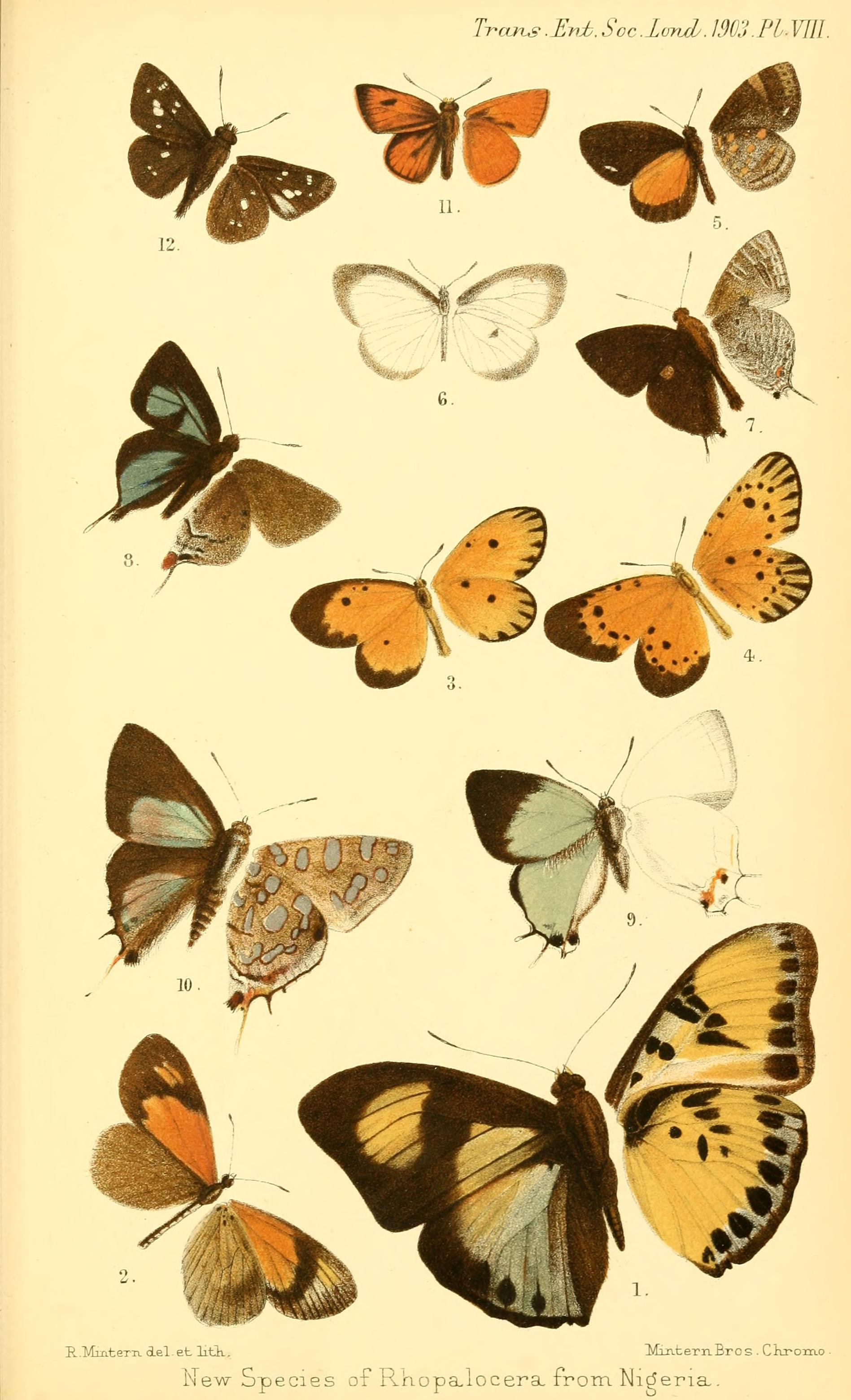 Percy Ireland Lathy, 1903 An Account of a Collection of Rhopalocera made on the Anambara Creek in Nigeria, West Africa Trans. ent. Soc. Lond. 1903 (2) : 182-206, pl. 8 1 Euphaedra nigrocilia Euphaedra nigrocilia Lathy, 1903 2 Telipna actinotina synonym for Acraea actinotina(Lathy, 1903) 3 Pentila radiata synonym for Pentila pauli Staudinger, 1888 4 Pentila multipunctata synonym for Pentila pauli Staudinger, 1888 5 Pseuderesia gordoni synonym for Stempfferia gordoni(Druce, 1903) 6 Liptena submacula Liptena submacula Lathy, 1903 7 Deudorix caliginosa Deudorix caliginosa Lathy, 1903 8 Myrina subornata Myrina subornata Lathy, 1903 9 Jolaus adamsi synonym for Iolaus laon Hewitson, 1878 10 Aphnaeus brahami Aphnaeus brahami Lathy, 1903 11 Oxypalpus fulvus synonym for Teniorhinus ignita (Mabille, 1877)[ 12 Baoris ogrugana synonym for Meza meza(Hewitson, 1877)